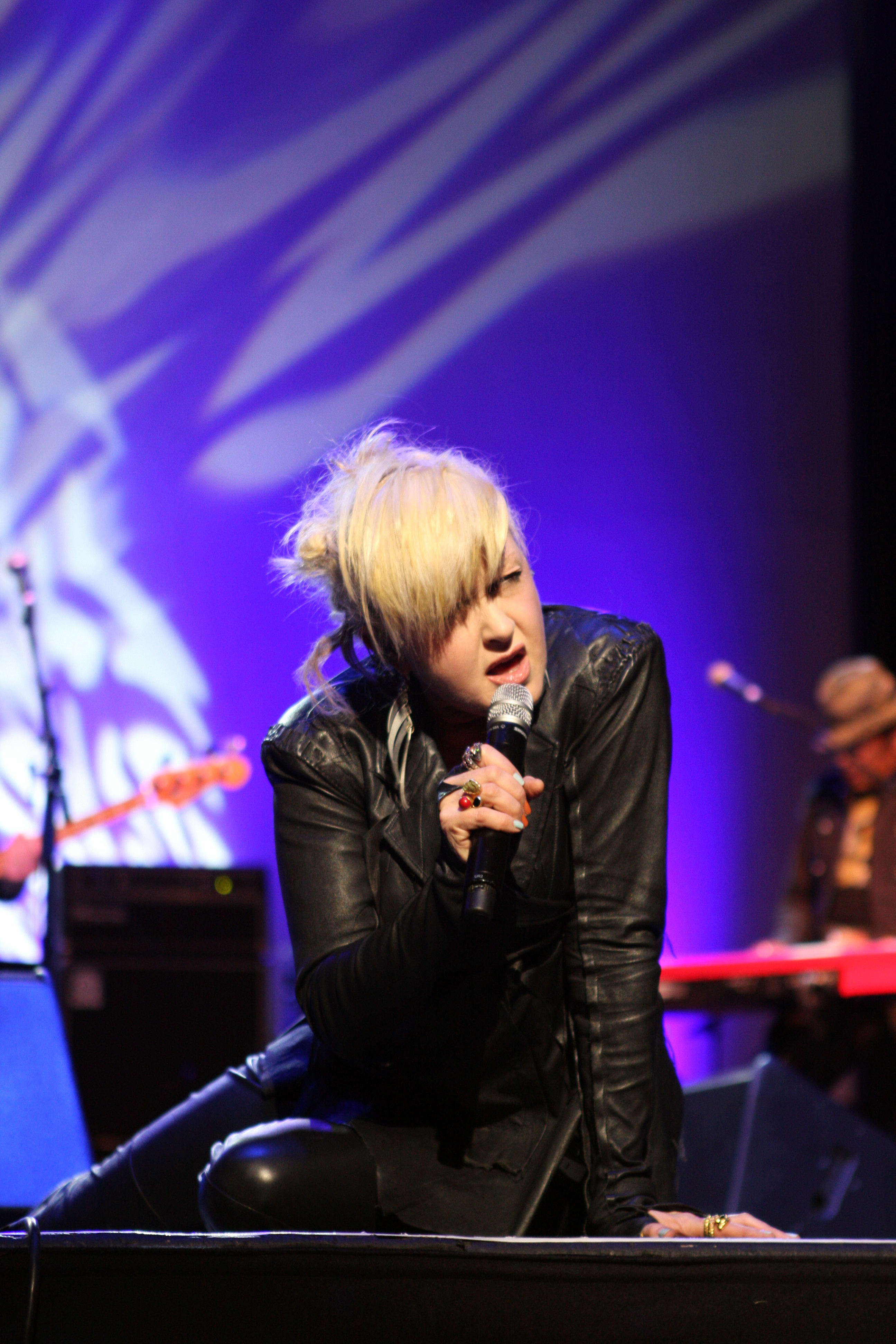 Cyndi Lauper in concert at Australia. 2011. Memphis Blues Tour.